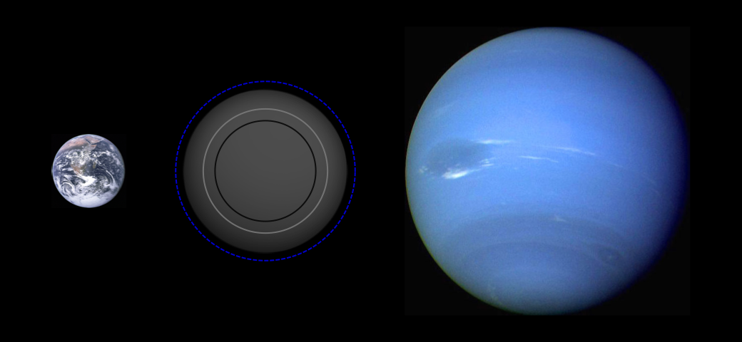 Comparison of several possible sizes for the exoplanet Gliese 581 d with the Solar System planets Earth and Neptune, using approximate models of planetary radius as a function of mass[1] for several possible compositions, based on mass reported in the Extrasolar Planets Encyclopaedia[2] as of 2010-10-03. Models include: water world with a rocky core, composed of 75% H2O, 3% Fe, 22% MgSiO3 hypothetical pure water (ice) planet, the largest size for Gliese 581 d without a significant H/He envelope rocky terrestrial "Earth-like" planet, composed of 67% Fe, 32.5% MgSiO3 hypothetical pure iron planet, Gliese 581 d's theoretical smallest size Gliese 581 d is not likely to be smaller than the iron planet, and will be considerably larger than the water planet if significant H or He is present. For non-transiting planets, all modeled sizes will be underestimates to the extent that the planet's actual mass is larger than the reported minimum mass. ↑ Seager, S.; M. Kuchner, C. A. Hier-Majumder and B. Militzer (2007). "Mass–radius relationships for solid exoplanets". The Astrophysical Journal 669: 1279–1297. Retrieved on 2010-08-27. ↑ Extrasolar Planets Encyclopaedia (2010-09-30). Retrieved on 2010-10-03.